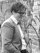 Hannah Gadsby with Jason Wing, an Aborigine artist, talking about his art for a documentary. #HannahGadsby #JasonWing #art Redfern #Sydney #graffiti #streetart